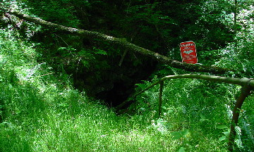 Colossal Cavern Entrance, Mammoth Cave National Park, Kentucky, USA